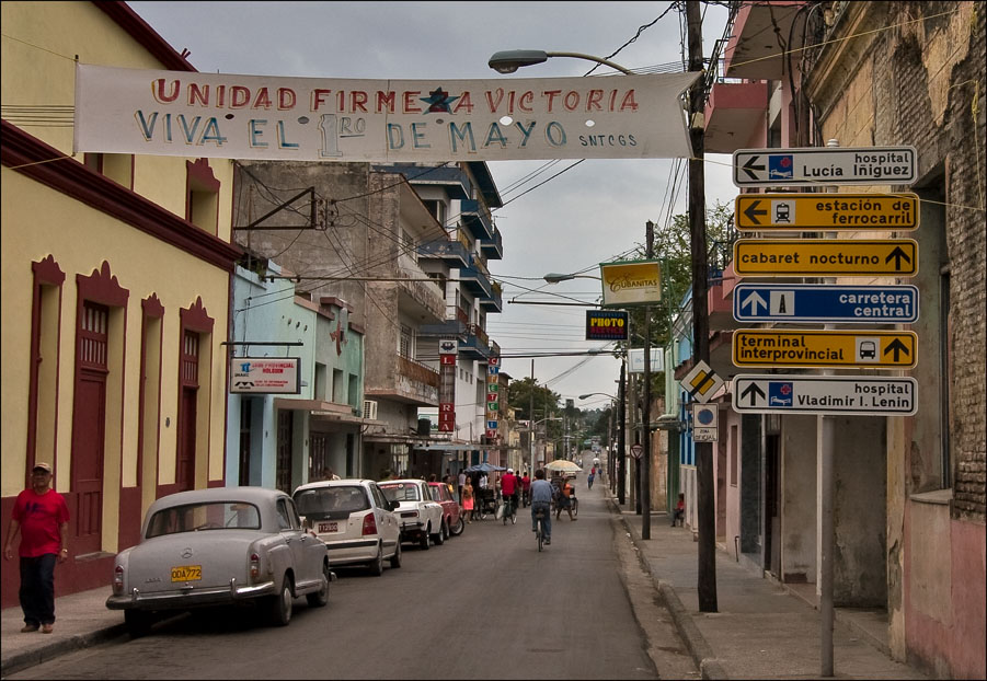 The Holguín street view